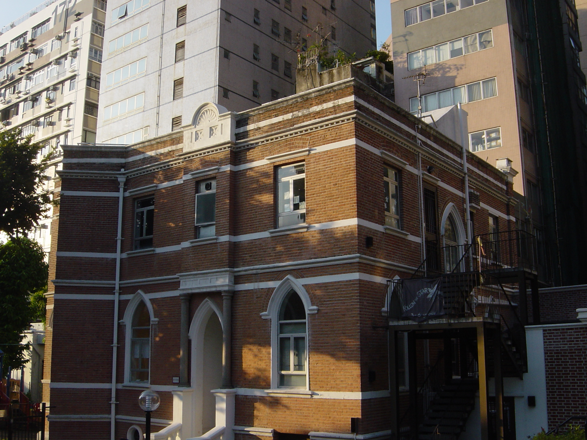 香港尖沙咀彌敦道聖安德烈堂。St. Andrew's Church, Tsim Sha Tsui, Kowloon, Hong Kong.